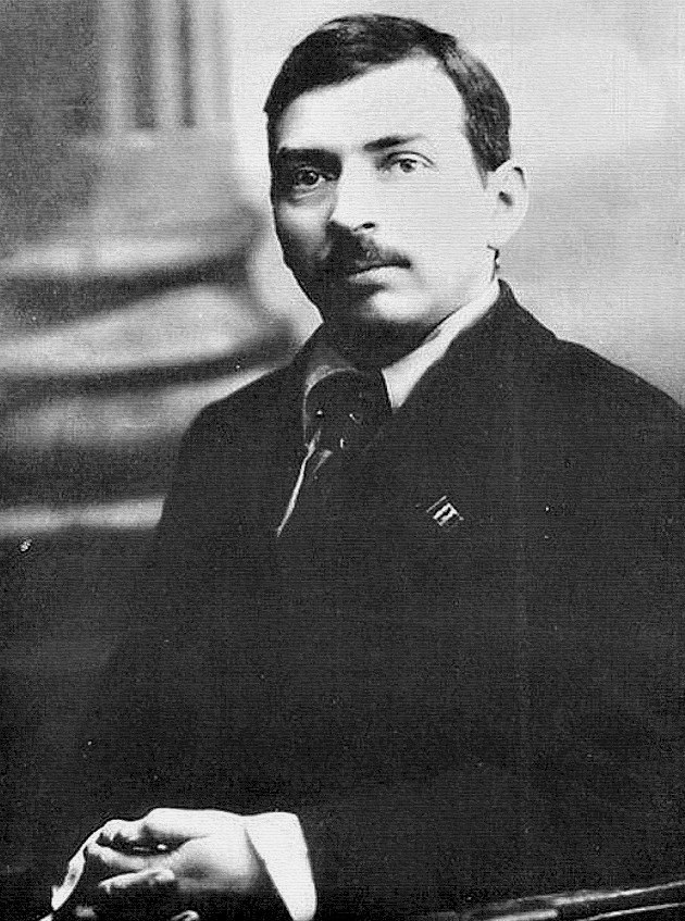 Mikhail Tomsky , Communist , commited suicide in September 1936 during The Great Purge. Well known photo of Tomsky as a Chairmain of Soviet trade-unions